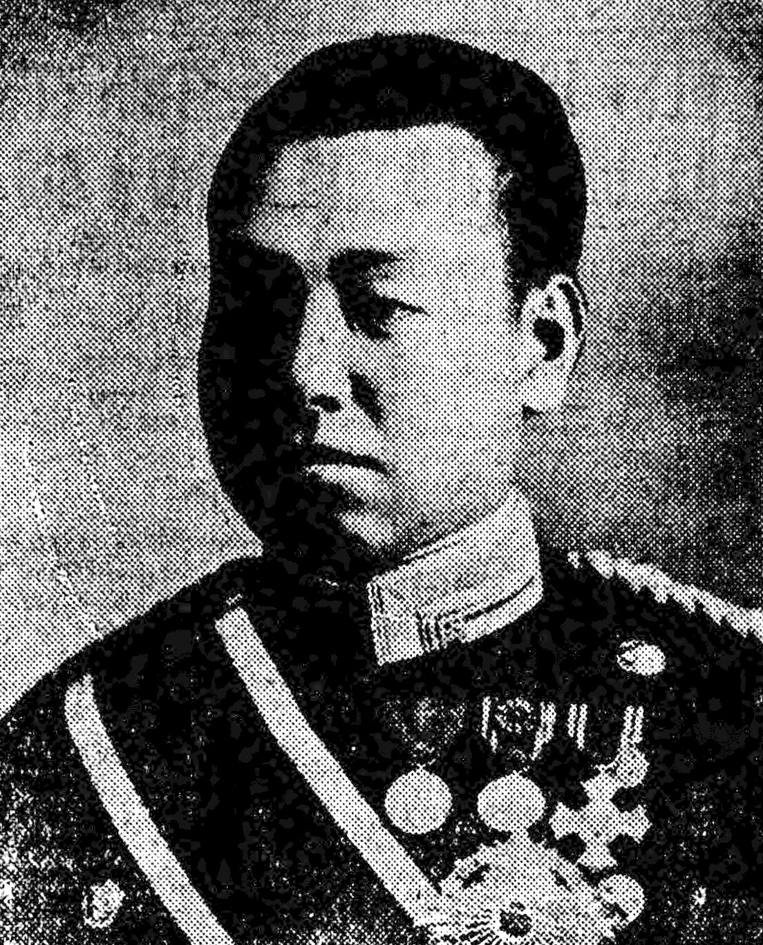 Prince Kuni Kuniyoshi (久邇宮邦彦王 Kuni-no-miya Kuniyoshi ō, 23 June 1873 – 29 June 1929) was a member of the Japanese imperial family and a field marshal in the Imperial Japanese Army during the Meiji and Taishō periods. The original source only captions this as "Prince Kuni of Japan" but I strongly believe this is an image of Kuni Kuniyoshi.